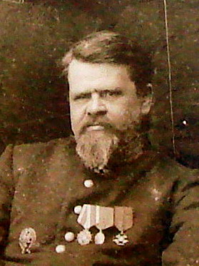 Russia, Vologda, Vologda Railway College Museum, principal Krilov A.I.